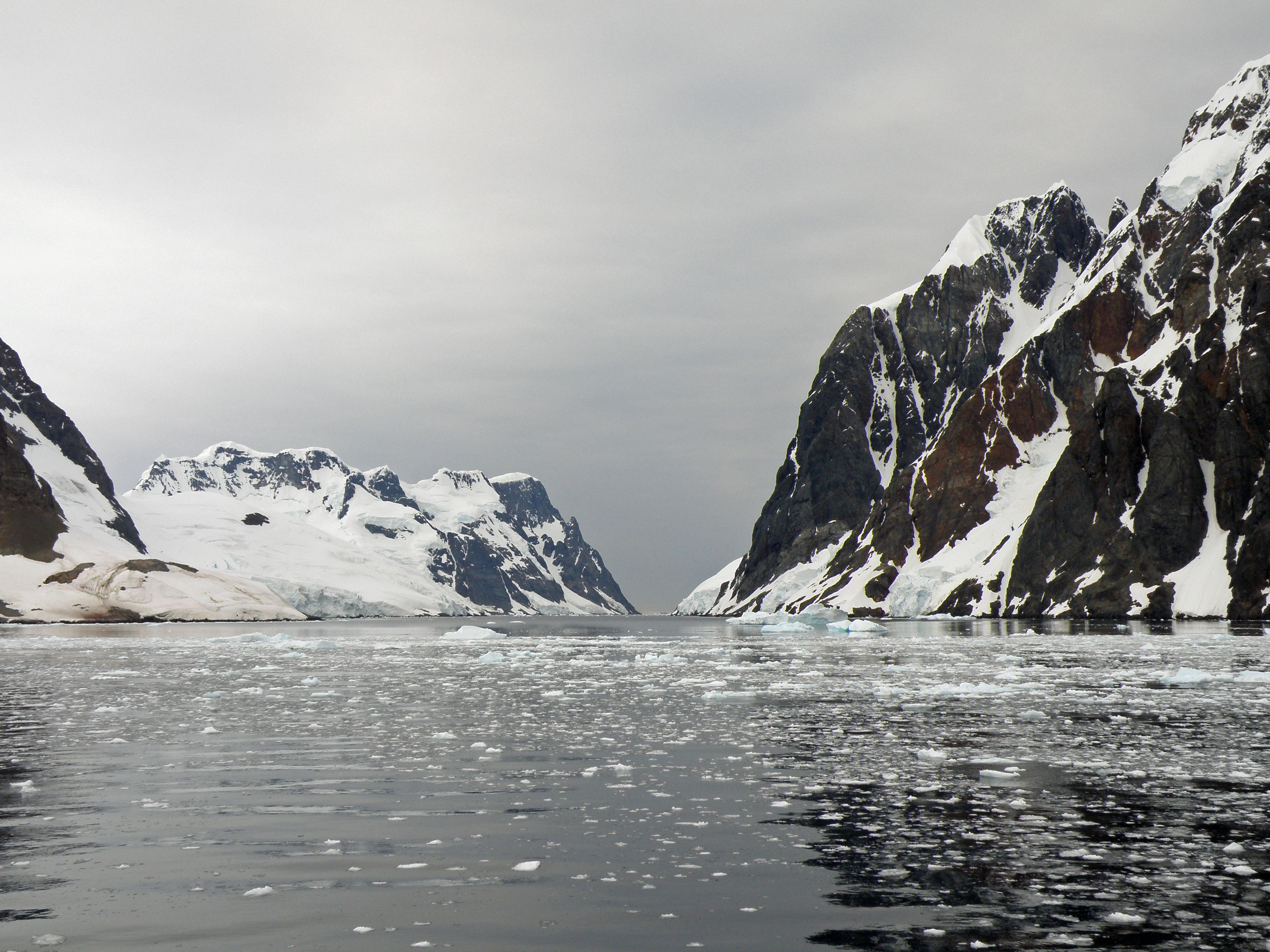 Exemple of brash ice in Lemaire Channel (Antarctica).